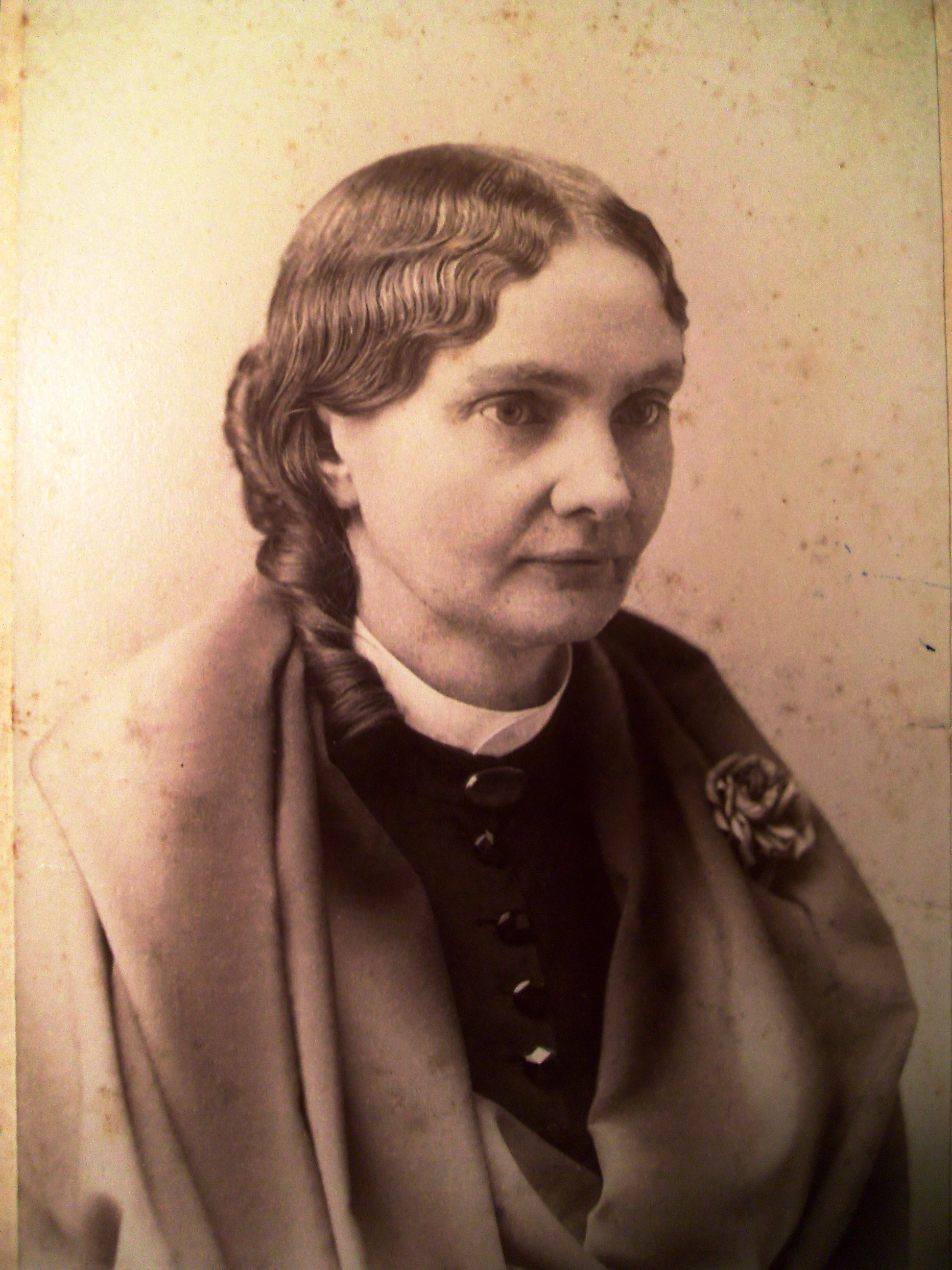 Photograph of Mary Jewett Telford courtesy of Floris A. Lent